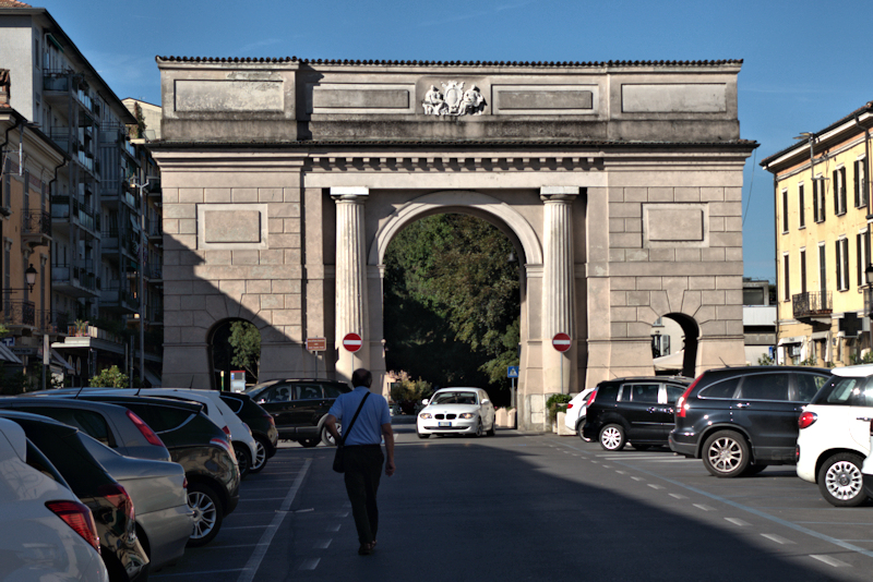 The internal side of city gate "Porta Ombriano", in Crema (Italy)